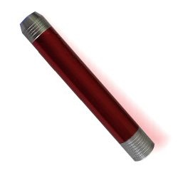 tooth plaque detector